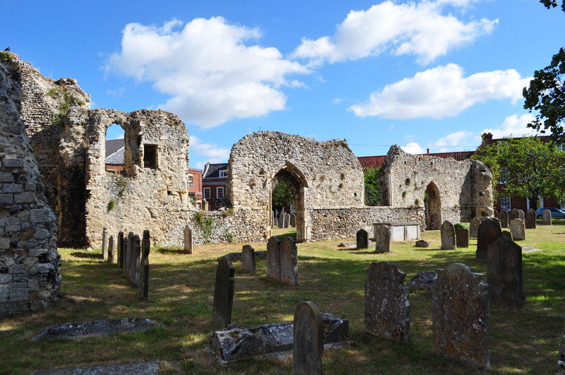 Bungay Priory (remains of). Benedictine nunnery founded 1183 dissolved 1536. St. Mary's parish church is probably the parochial nave to which the nuns' choir belonged. Most of the priory buildings were destroyed by fire in 1688.